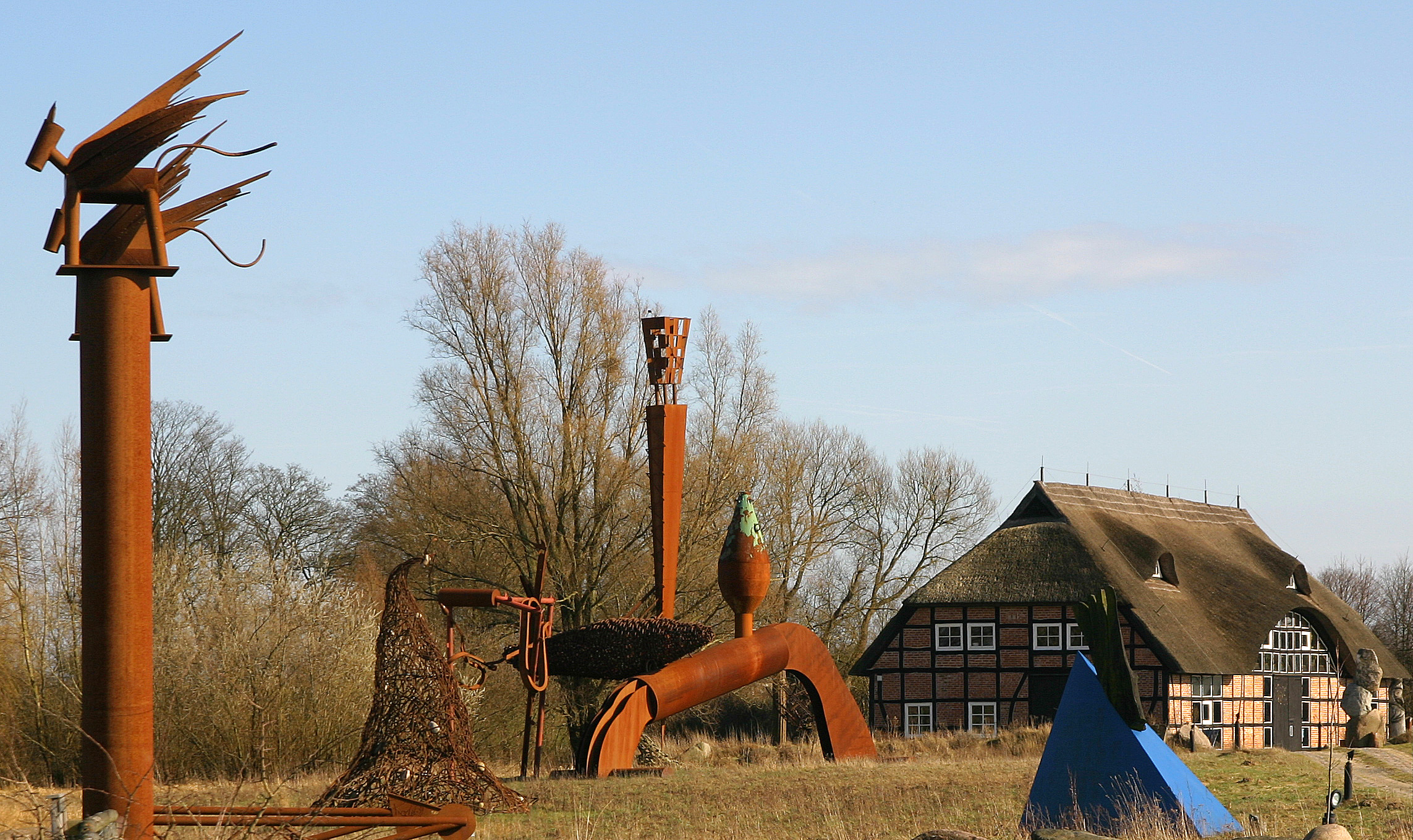 Skulpture park Katzow, entrance and Art barn